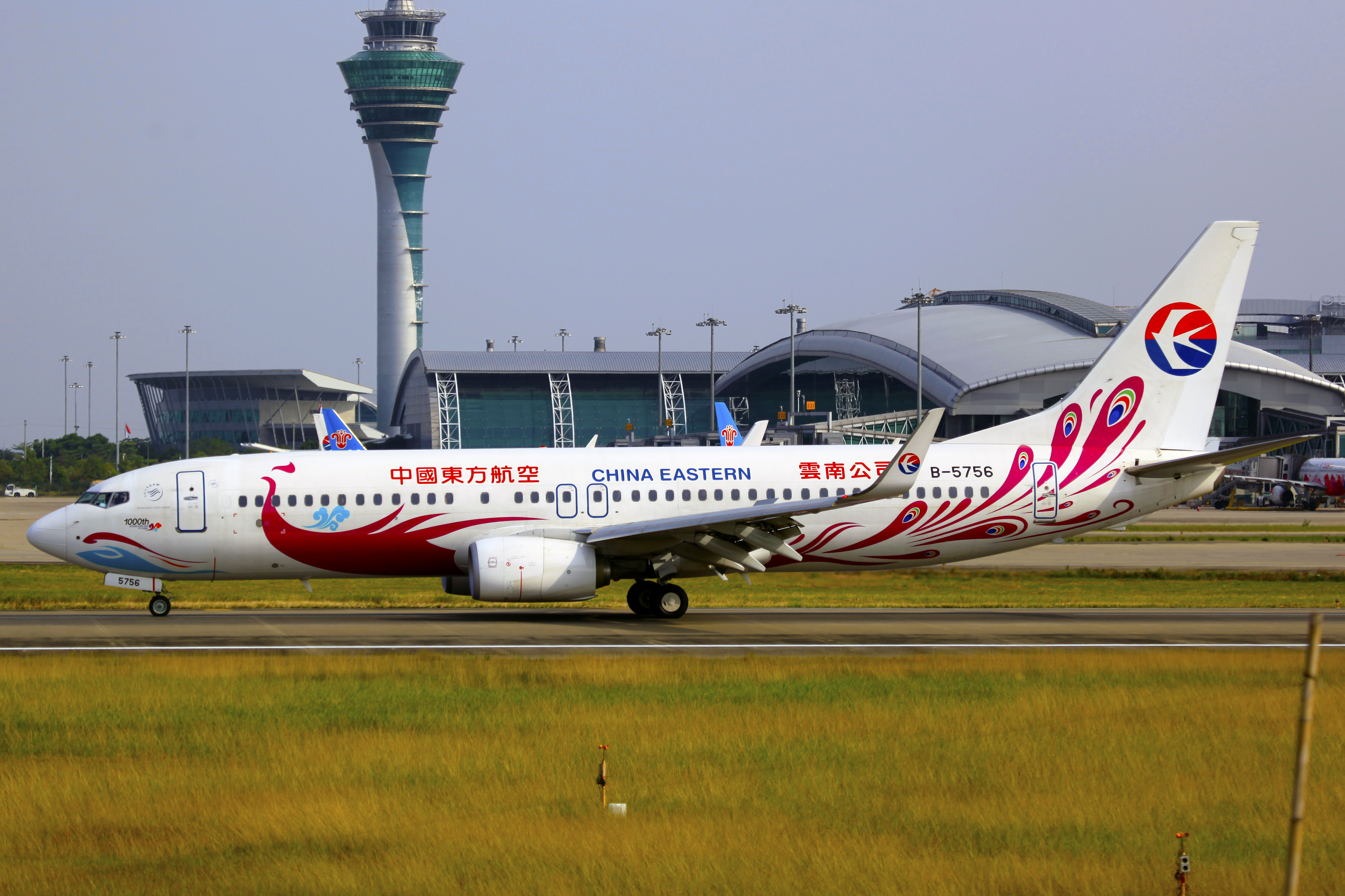 B-5756 | China Eastern Airlines | Boeing 737-89P(WL) | Purple Peacock Livery | 1000th Boeing Airplane for China | Guangzhou Baiyun International Airport [CAN]